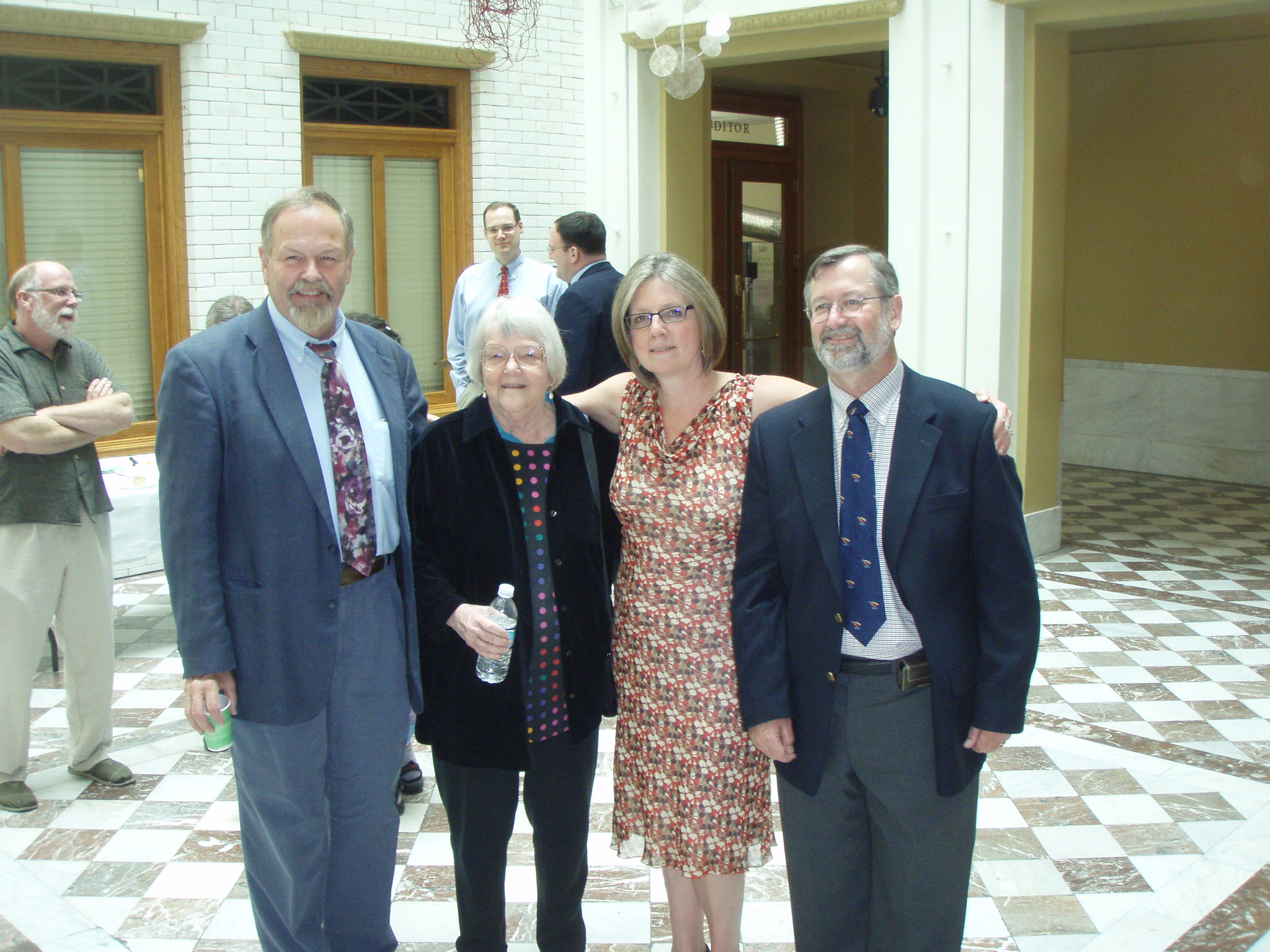 Four auditors of Multnomah County, Oregon: Steve March, Jewel Lansing, LaVonne Griffin-Valade, and Gary Blackmer